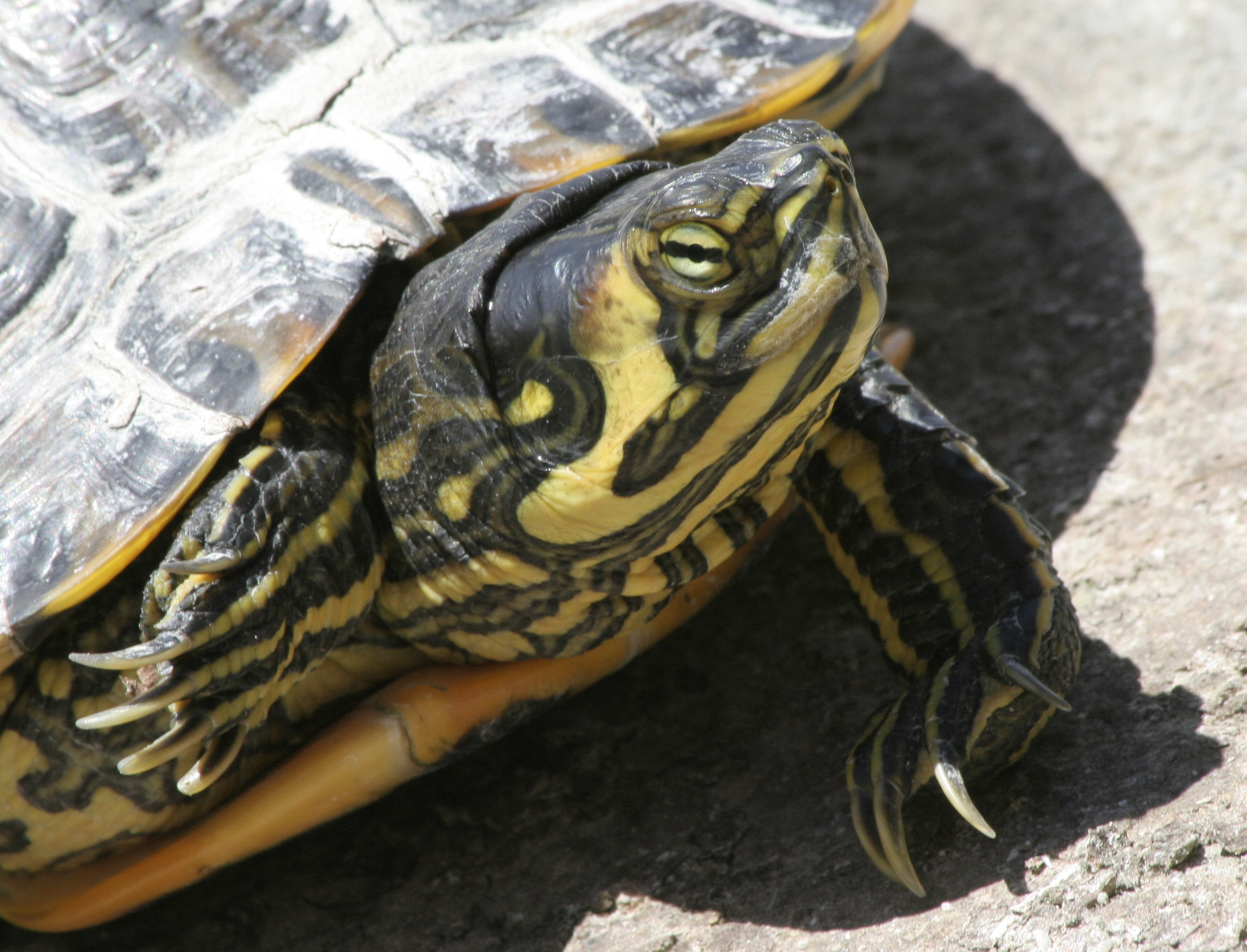 Close view of a Trachemys scripta